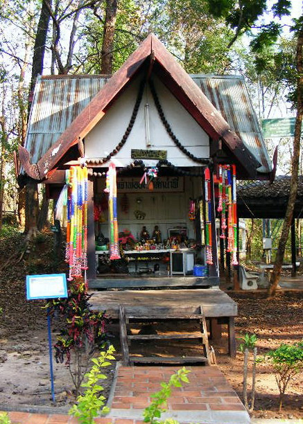 THE SHRINE OF BOR LEK NAM PHI GOD in Bo Lek Nam Phi (Bor Lek Nam Phi Folk Museum). Bo Lek Nam Phi, Ban Nam Phi, Nam Phi subdistrict, Amphoe Thong Saen Khan, Uttaradit Province, Thailand.